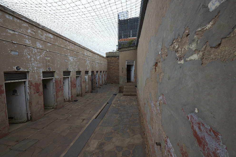 Male black prisoners were kept here during apartheid South Africa This media shows a South African Protected Site with SAHRA file reference Braamfontain, South Africa.